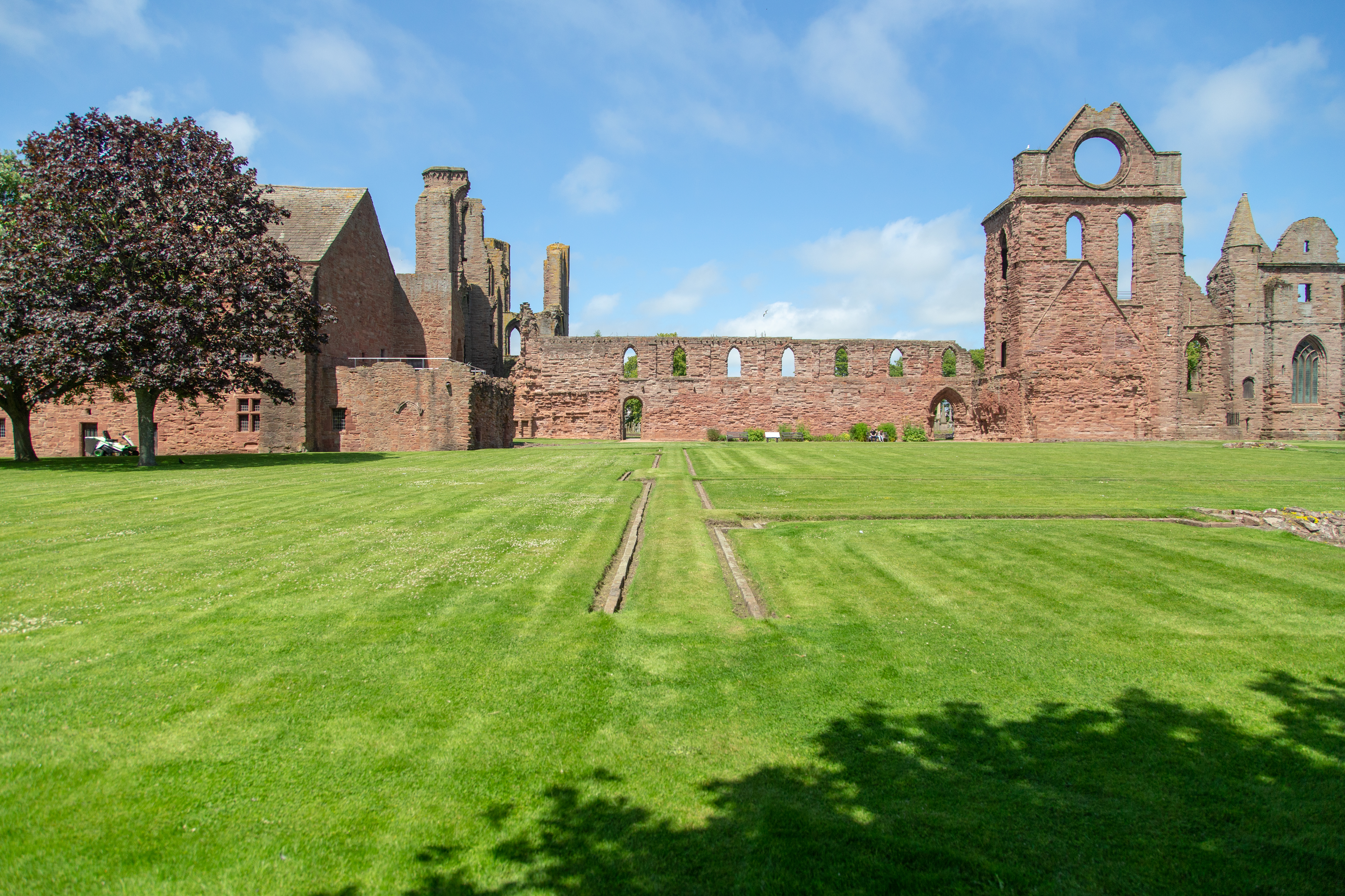 Arbroath Abbey